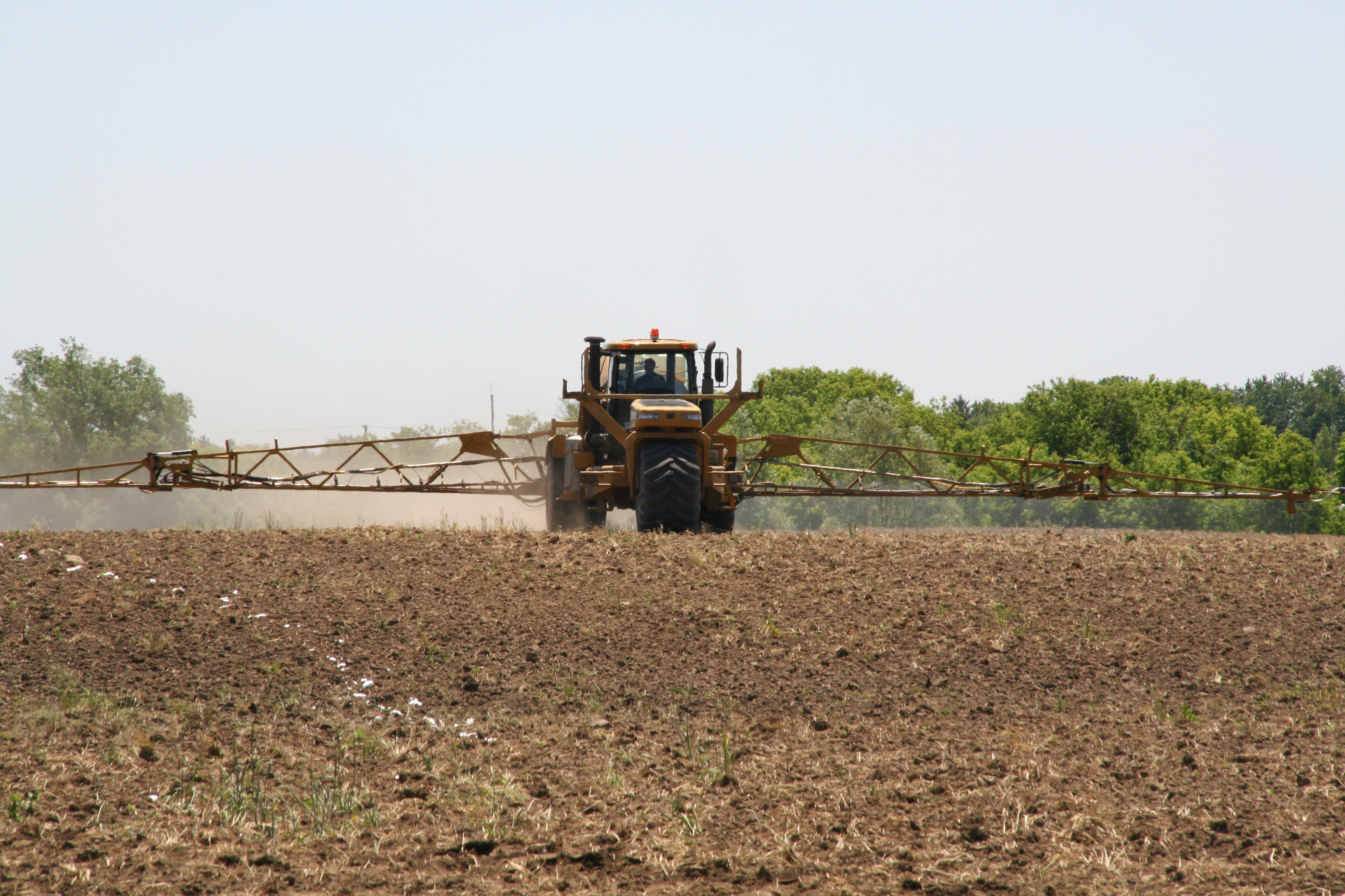 A 1999 TerraGator 8103 applying herbicide on pre-emergent crops. This TerraGator has an 1800 gallon capacity, 80' boom, and a 400HP Caterpillar engine. While this picture is of a Roundup application at relatively low flow rates, this machine is capable of using much larger nozzles for spraying liquid fertilizer, normally in the form of 28% liquid urea ammonium nitrate (UAN).